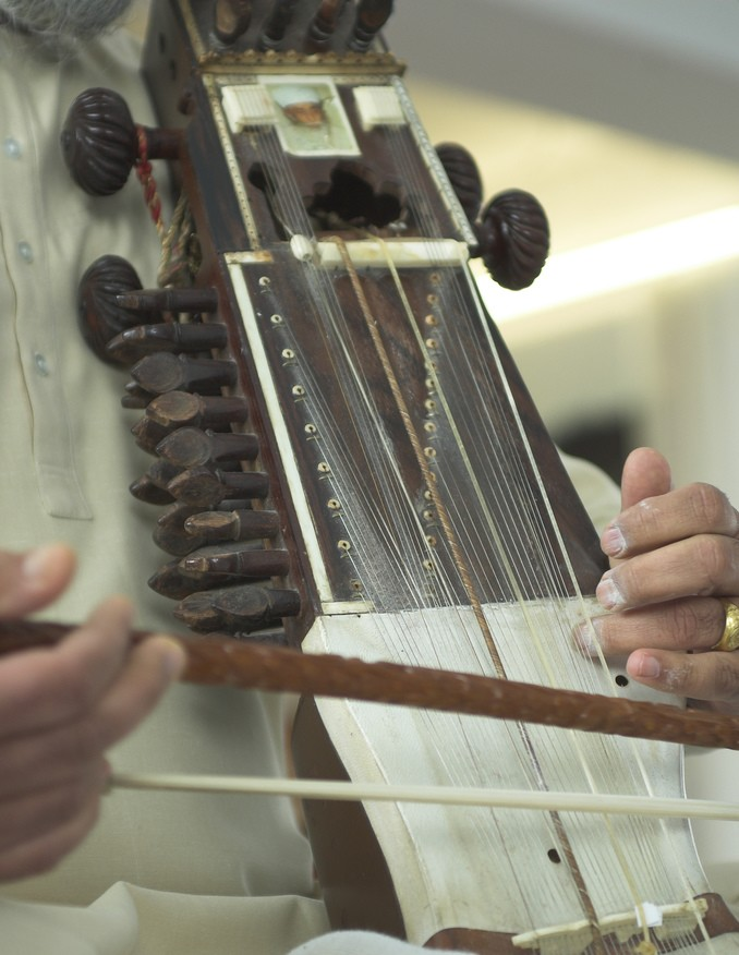 Close-up of a sarangi being played by Surjeet Singh.